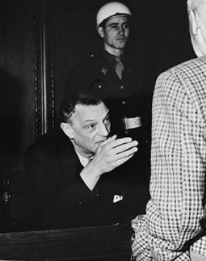 Defendant Arthur Seyss-Inquart talks to fellow defendant Wilhelm Frick during a court recess at the International Military Tribunal trial of war criminals at Nuremberg. [Photograph #10381]